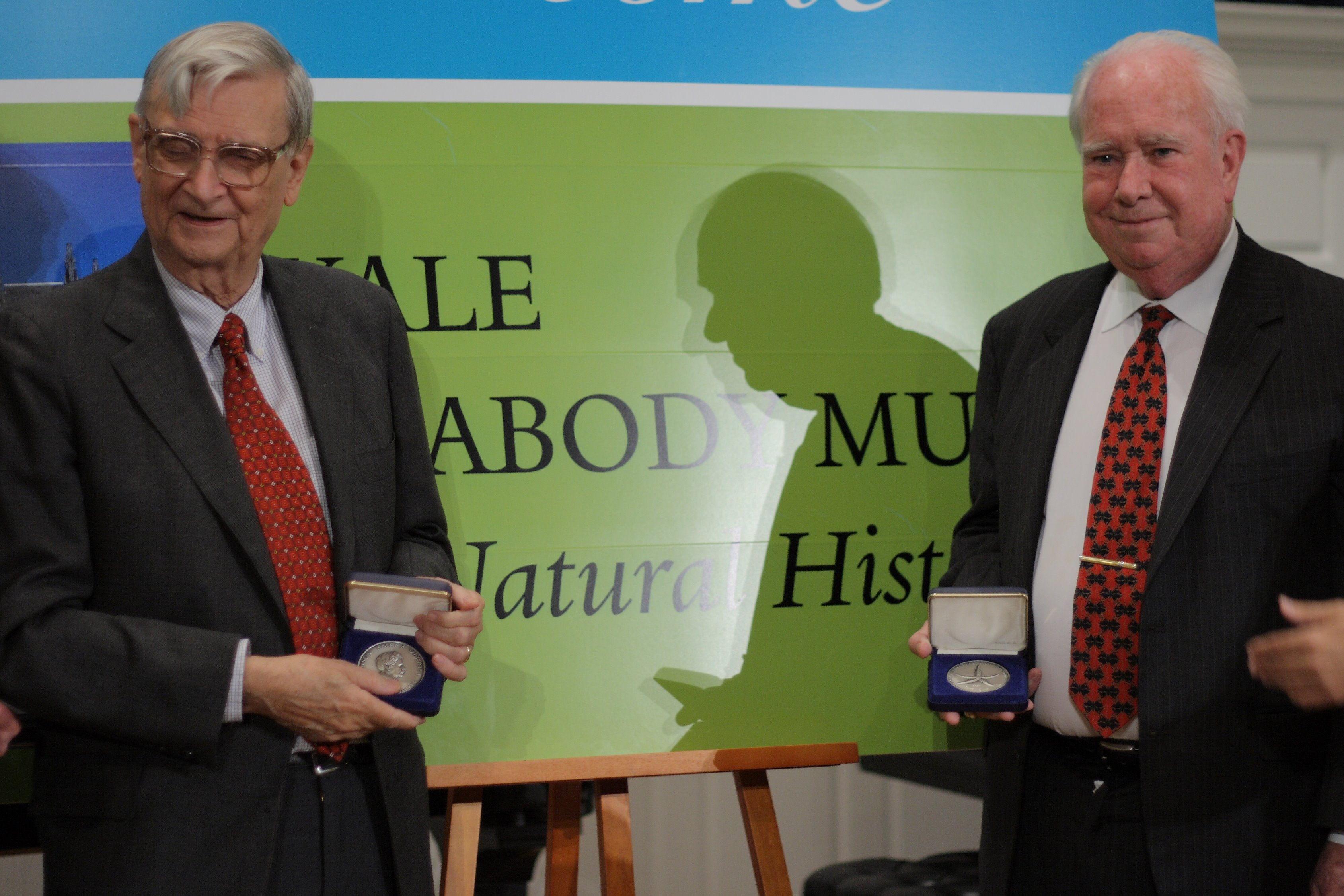 Conservationists Edward O. Wilson and Peter H. Raven at a "fireside chat" at Yale University, at which they were awarded the Addison Emery Verrill Medal from the Peabody Museum of Natural History.